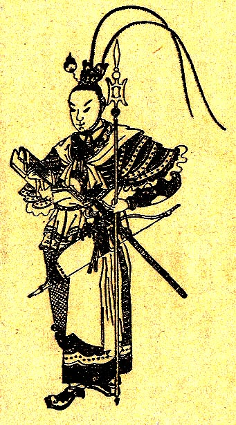 Portrait of Lü Bu from a Qing Dynasty edition of the Romance of the Three Kingdoms